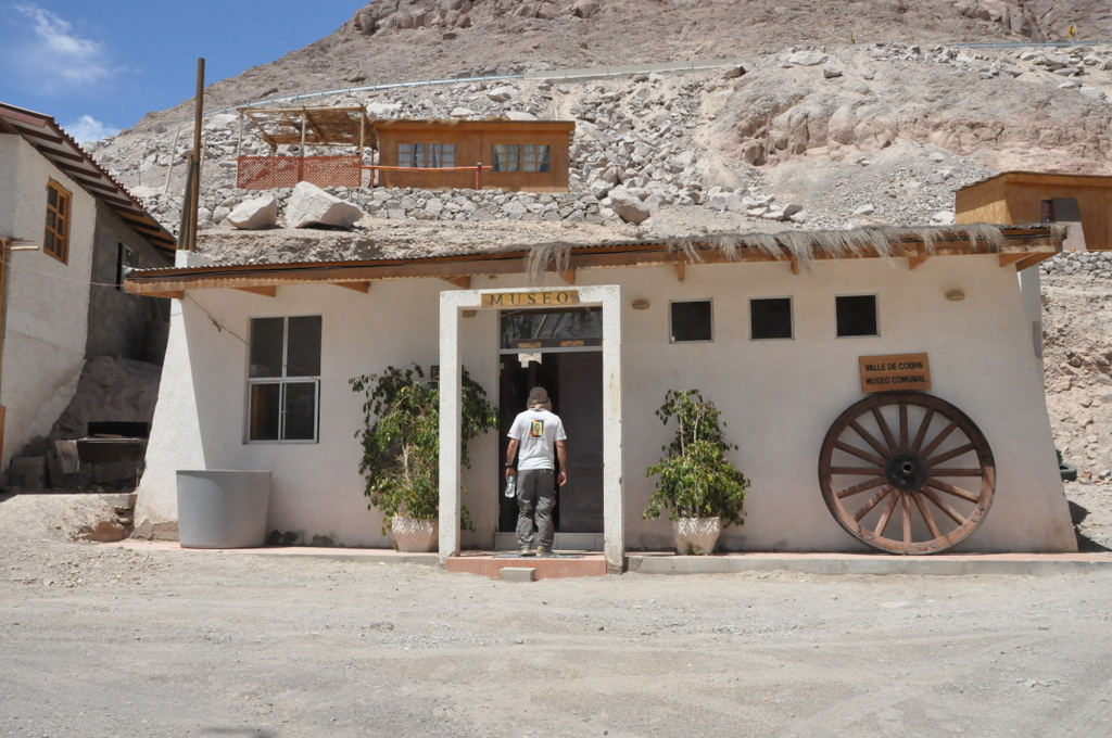 Codpa Village, commune of Camarones, Chile